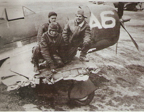 P-47 A6 (Red Squadron), piloted by officer candidate Raymundo Canary, landed in Pisa after mission 184 in which he collided with a chimney losing 1.28 m from the right wing.